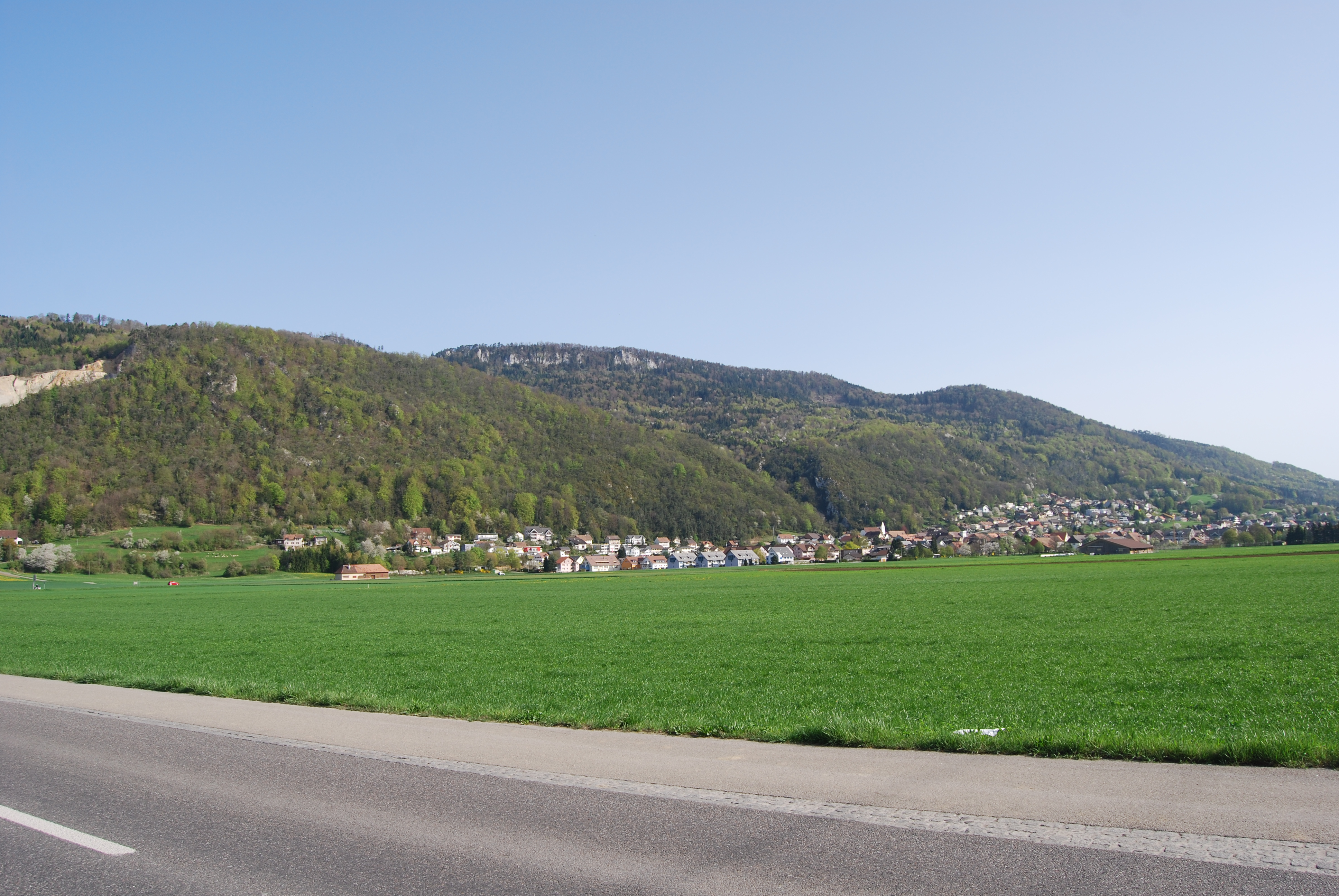 Egerkingen, canton of Solothurn, Switzerland